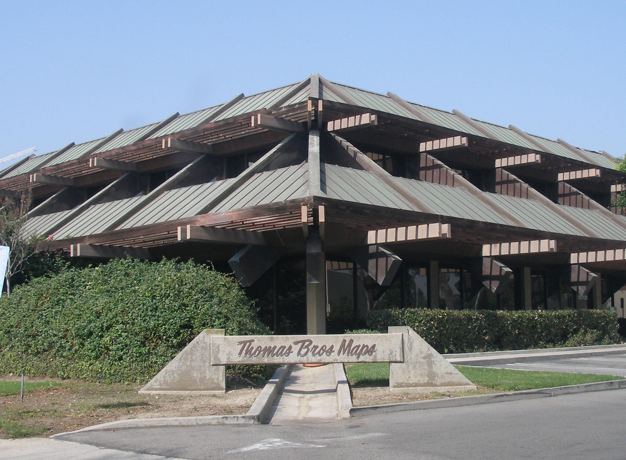 The former headquarters of Thomas Bros. Maps in Irvine, now a subsidiary of Rand McNally.